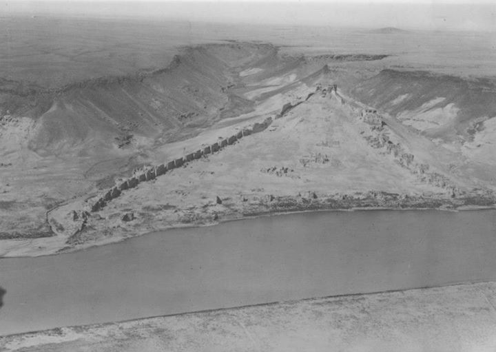 Halabiye on the Euphrates in the 1930s, by Pierre Antoine Berrurier.